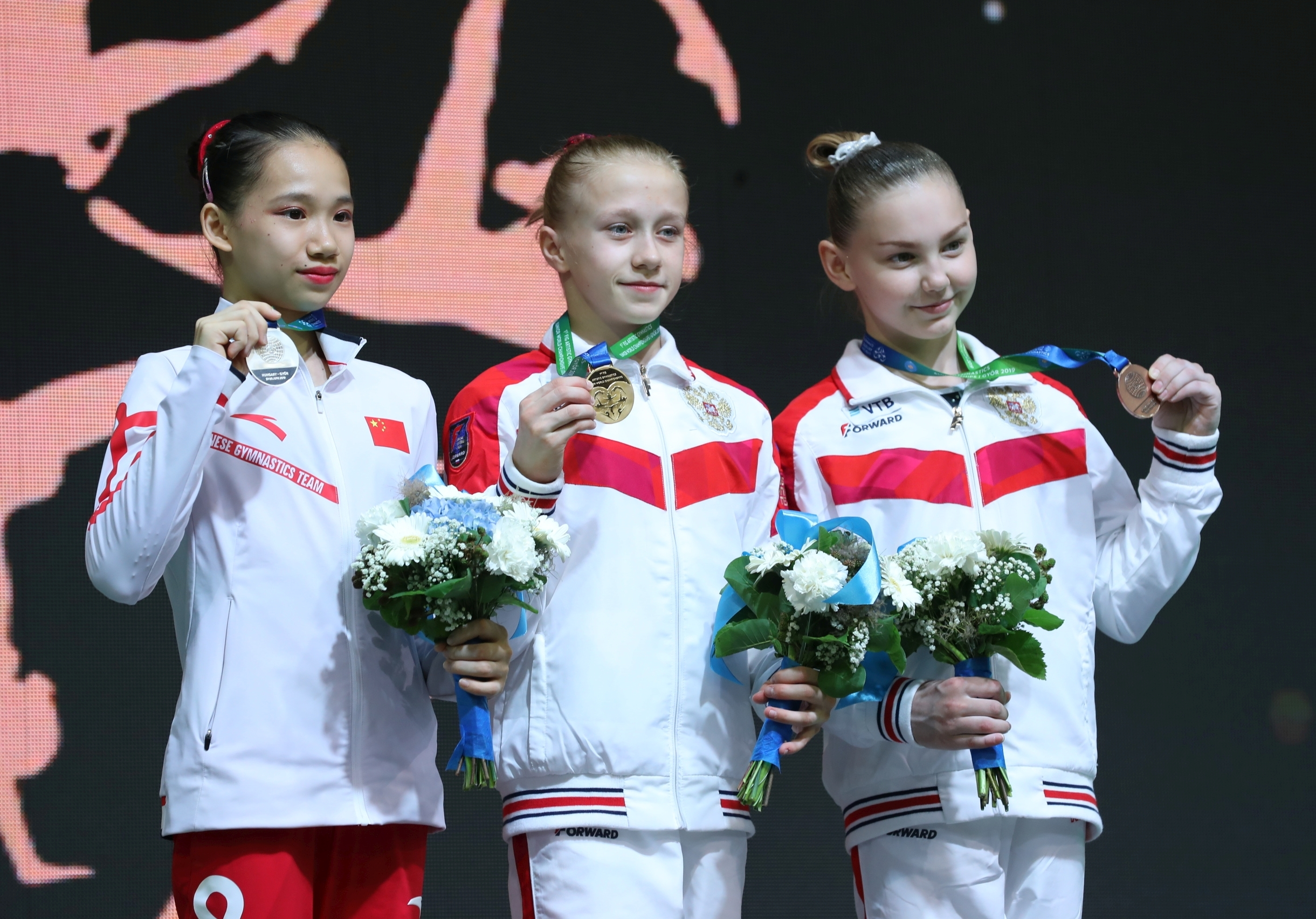 Floor exercise victory ceremony during the girls' apparatus finals at the 1st FIG Artistic Gymnastics Junior World Championships on 30 June 2019 in Győr, Hungary. Depicted: Elena Gerasimova. Viktoriia Listunova. Yushan Ou.